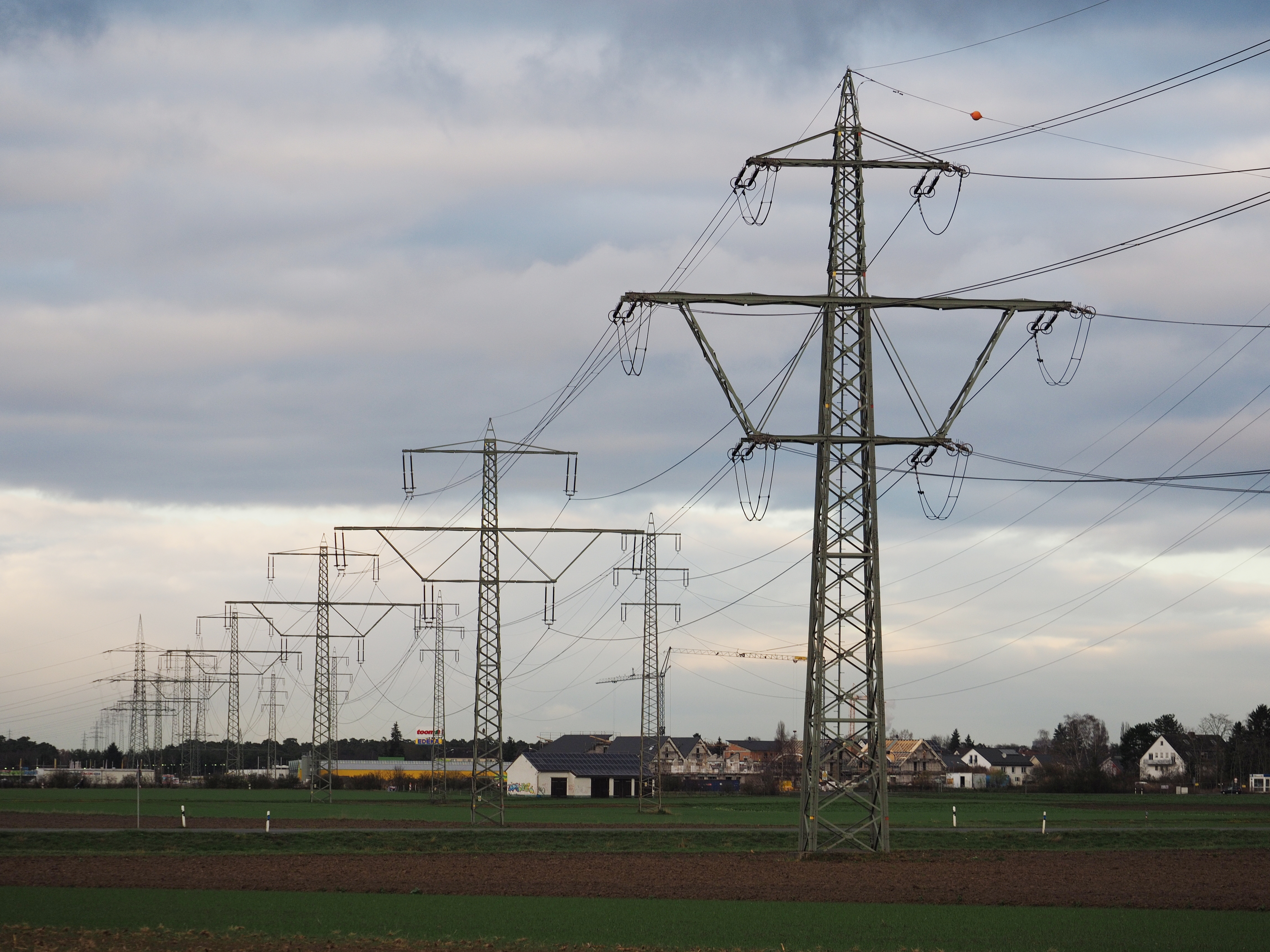 The North-South Powerline approaching Pfungstadt substation (in the background). These towers are the northernmost C1 type pylons after the northern part of the line as been replaced by a new one.